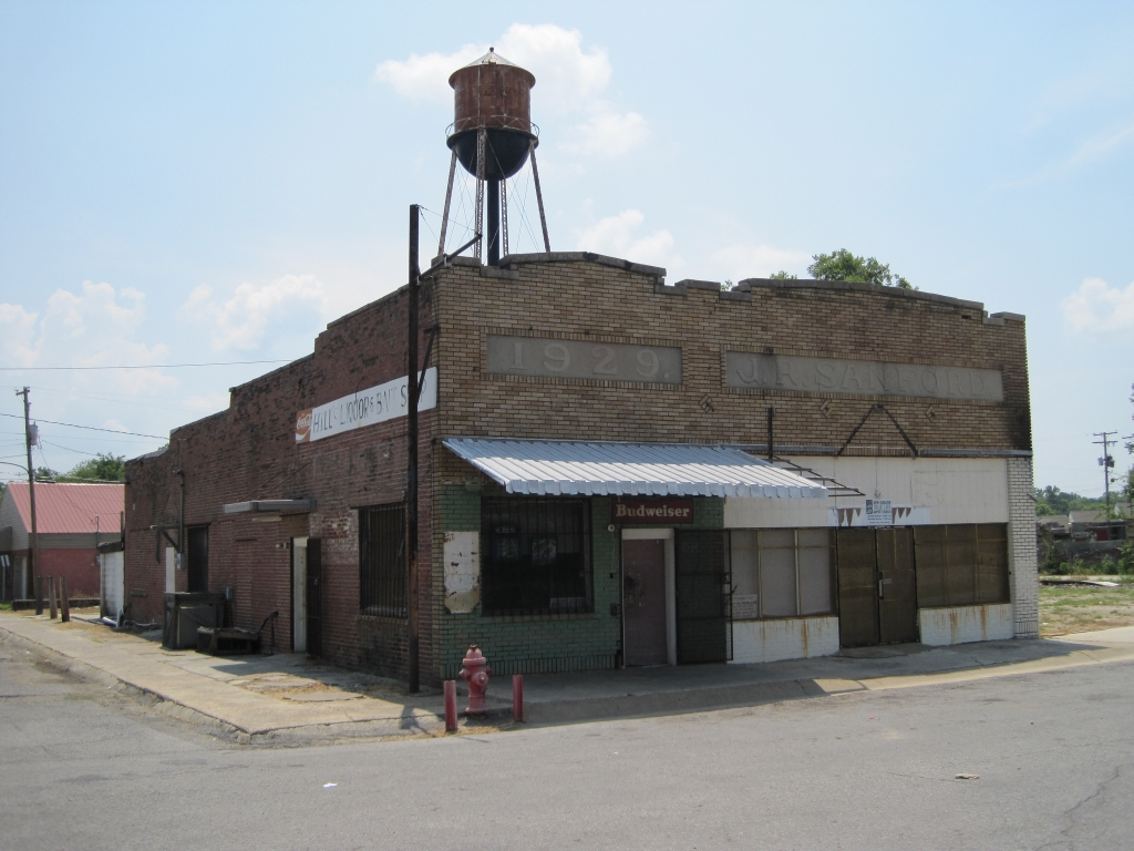 Turrell, Arkansas. Downtown